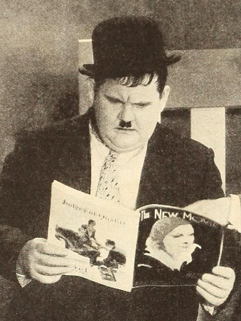 The New Movie, Feb. 1930